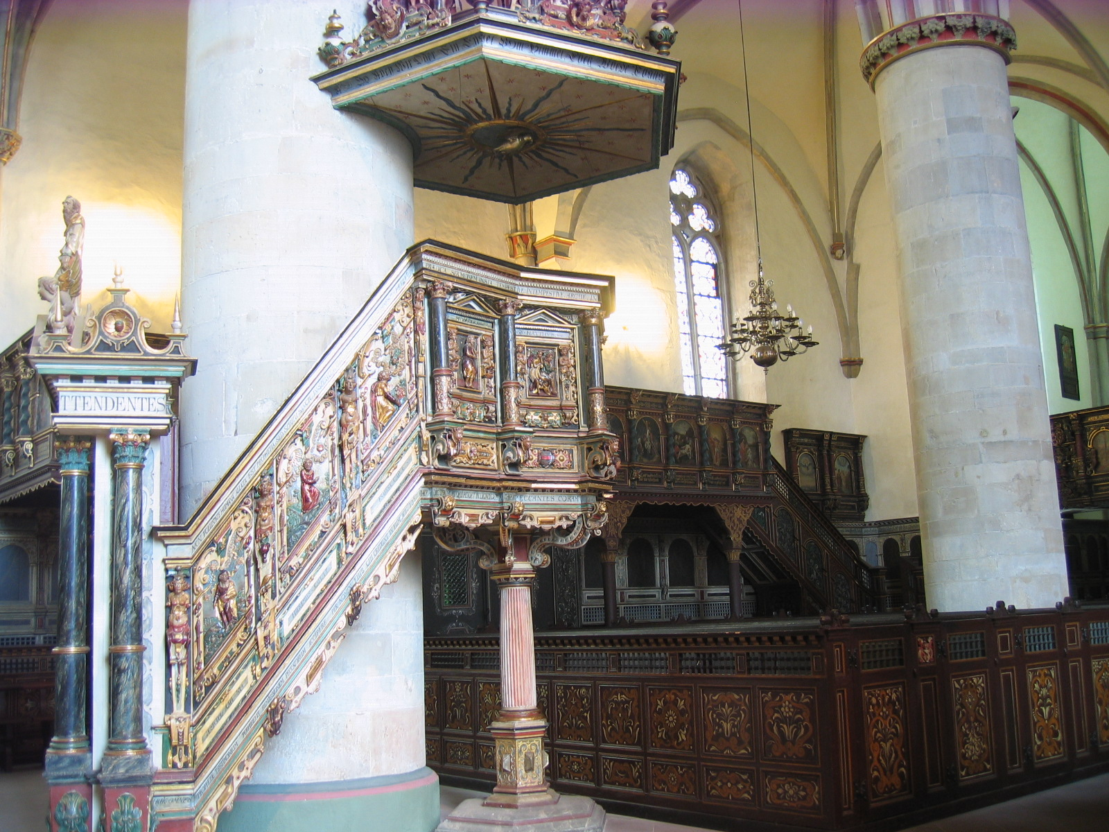 in Herford, District of Herford, North Rhine-Westphalia, Germany.